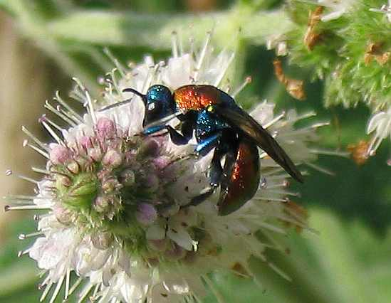 Original caption says: "Hedychrum nobile, selbst fotografiert am 2.8.2003, GNU-FDL" According to that it would be a Ruby-Tailed Wasp of species Hedychrum nobile --- nl: Goudwesp - volgens fotograaf Hedychrum nobile de: Goldwespe - laut Autor Hedychrum nobile